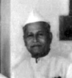 Standing: (From Left) Govindbhai Patel, Jaybhikhkhu, Chhabildas Desai, Shambhubhai Shah (founder Gurjar Grantharatna Karyalaya), Manubhai Jodhani (writer), Govinbhai Shah (Founder of Gurjar Grantharatna Karyalaya), Ratilal Desai Seating: (From Left) Dhirubhai Thaker, Kanchanbhai Parikh (registrar of Gujarat University), Chitrabhanu (Jain Philosopher and orator), Dhumaketu (Gujarati writer)